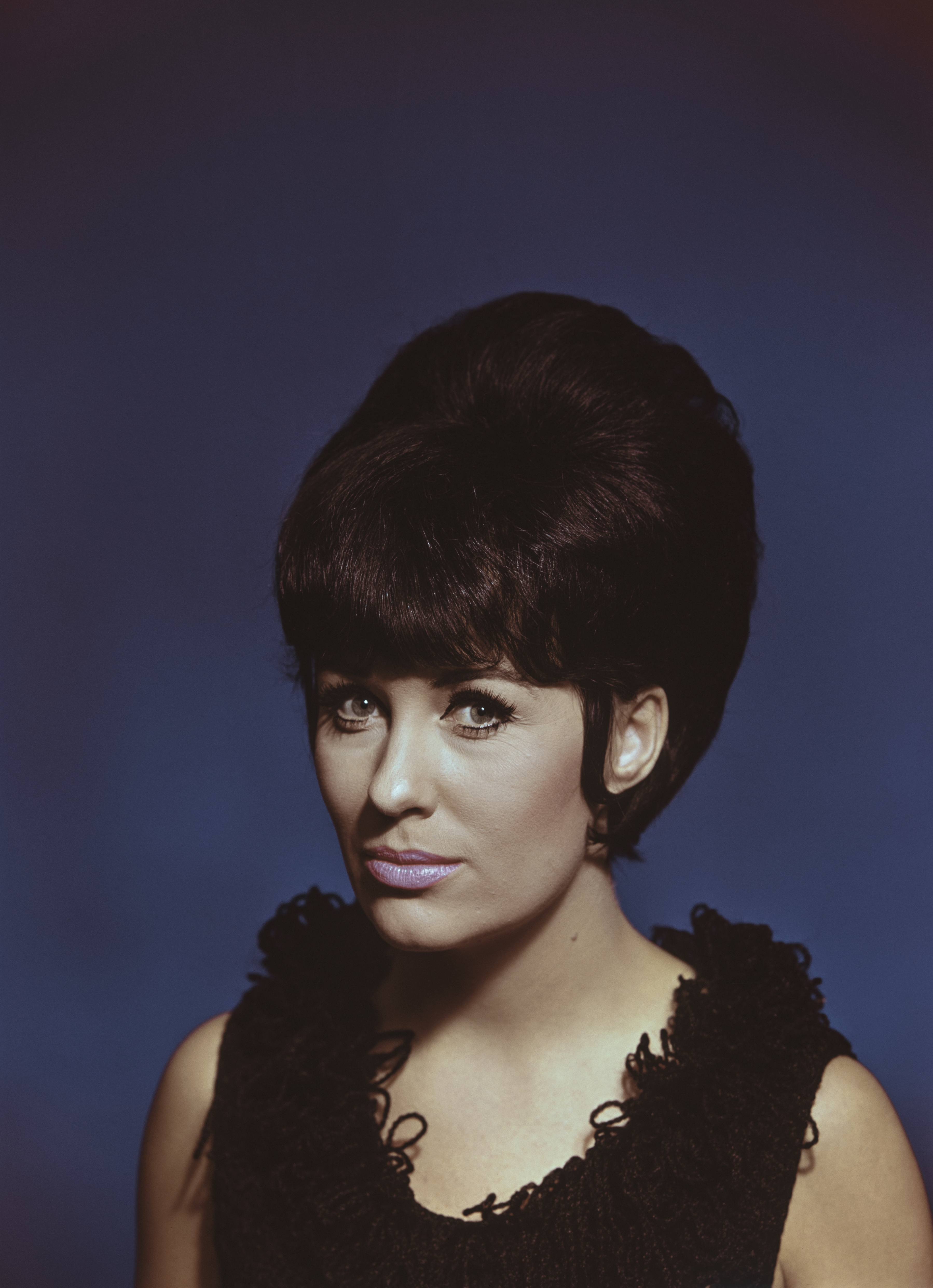 Photograph of the Finnish vocalist Laila Kinnunen (1939–2000).